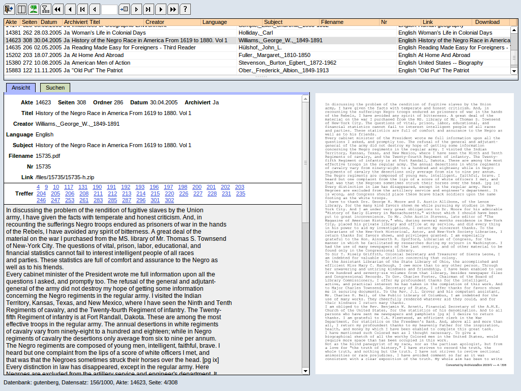 Archivista version 2010/III browsing archived documents (displaying a public domain text from Project Gutenberg). Web interface rendered with the WebKit rendering engine.